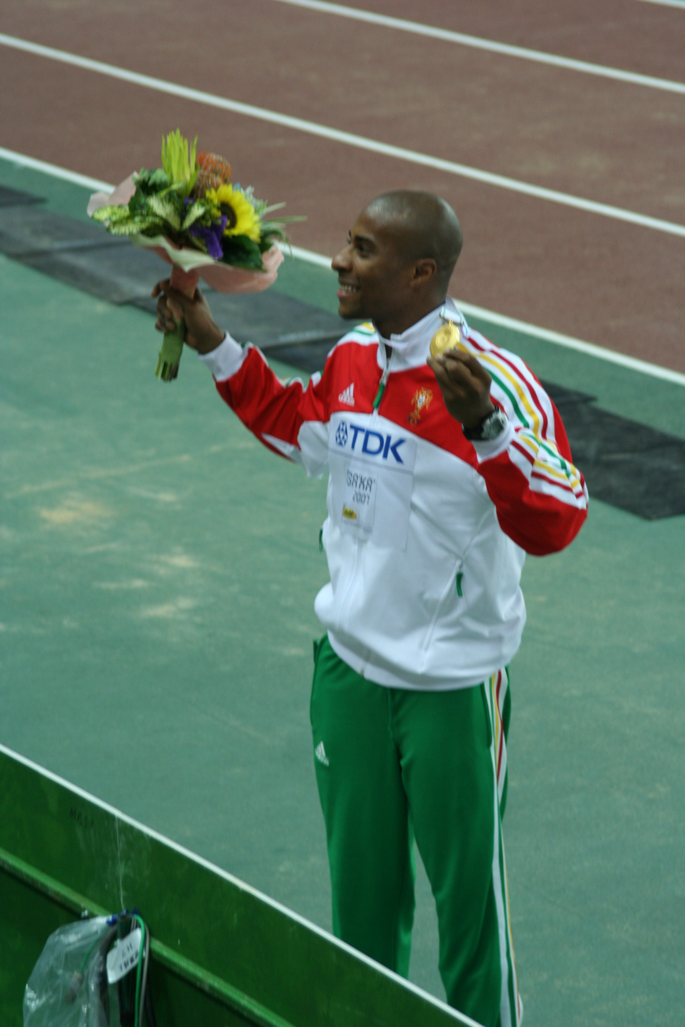 World Athletics Championships 2007 in Osaka - Triple Jump Winner Nelson Evora (Portugal) showing his gold medal